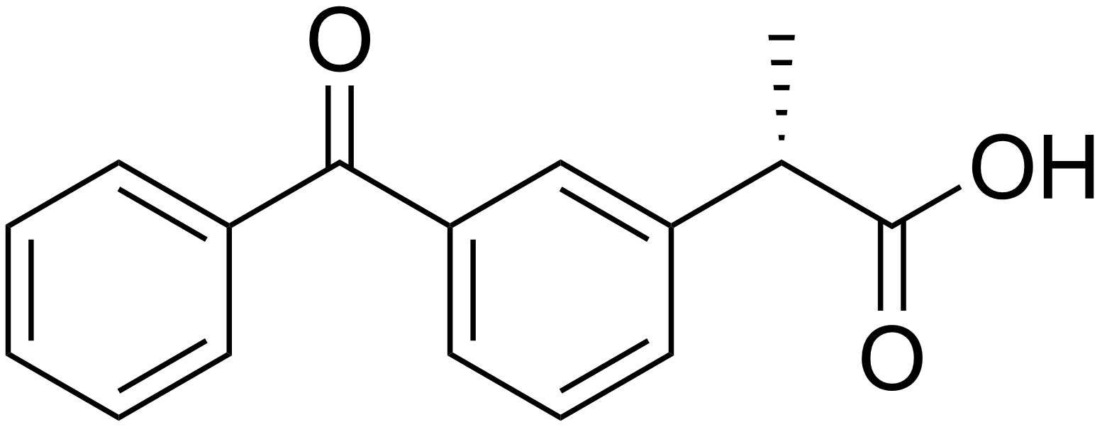 chemical structure of dexketoprofen